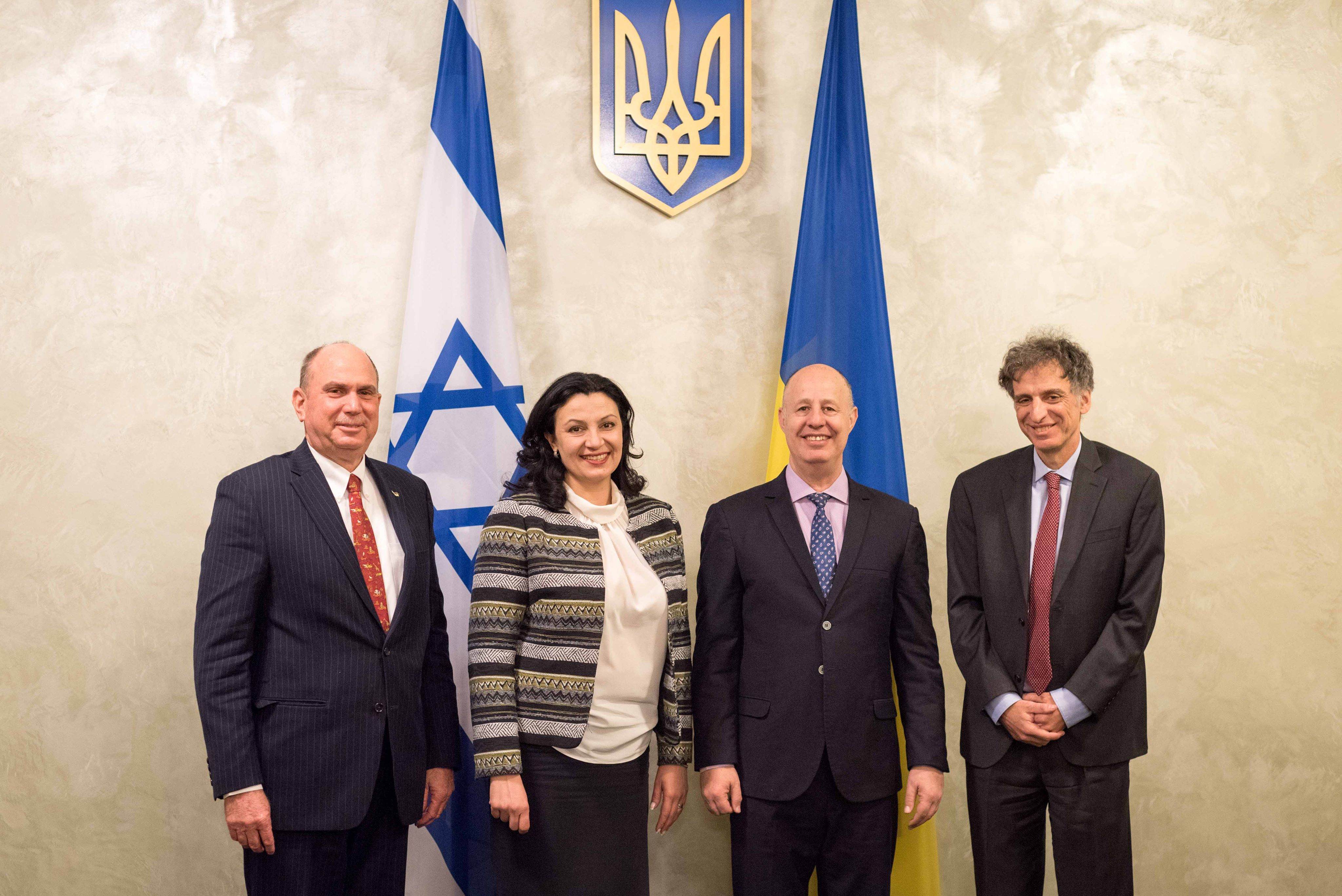 Віце-прем`єр-міністр з питань європейської та євроатлантичної інтеграції України Іванна Климпуш-Цинцадзе зустрілася з Міністром із регіональної співпраці Держави Ізраїль Цахі Ханегбі